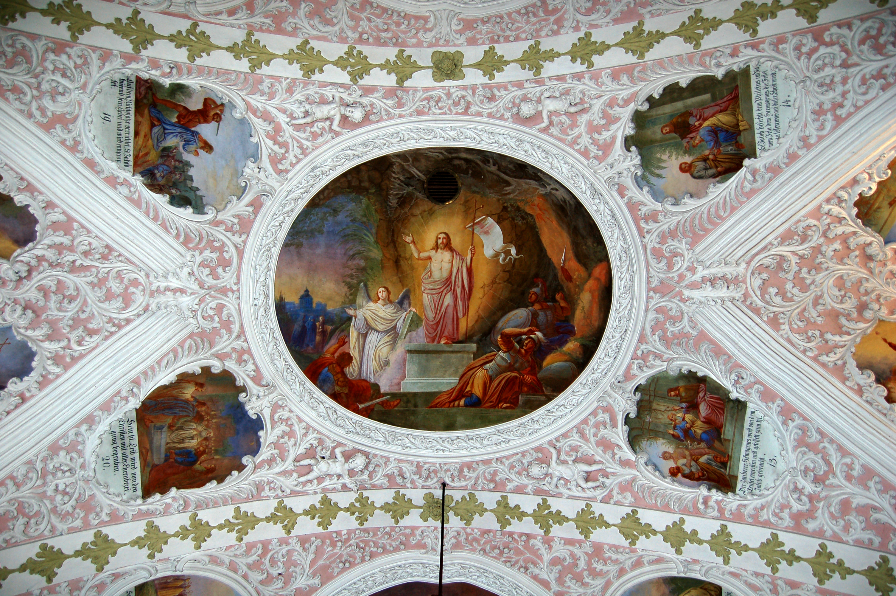 Parish church St. Jakobus d.Ä in Schalchen, Upper Austria. Part of the ceiling of the aisle with stucco by Johann Michael Vierthaler (around 1700/10) and paintings by the Salzburgo painter Josef Rattensperger (painted in 1852), here the resurrection in the center and smaller scenes from the life of the holy St. James the Greater around. Last renovation was done from 1999 to 2001.